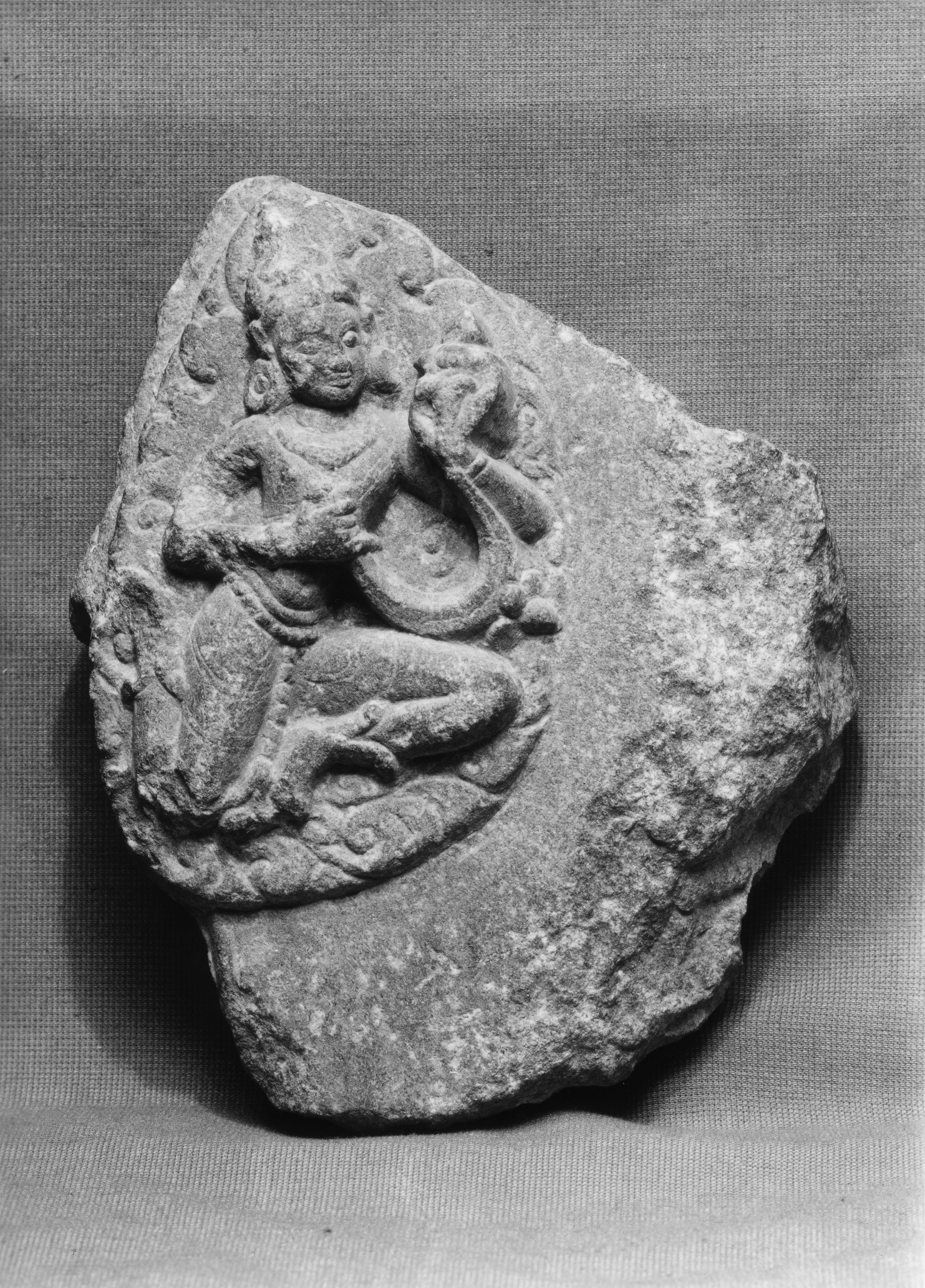 This piece is carved in flat relief.